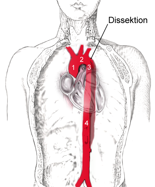 Aortic Dissection Type Stanford B - Aortendissektion Typ Stanford B(Scheme)